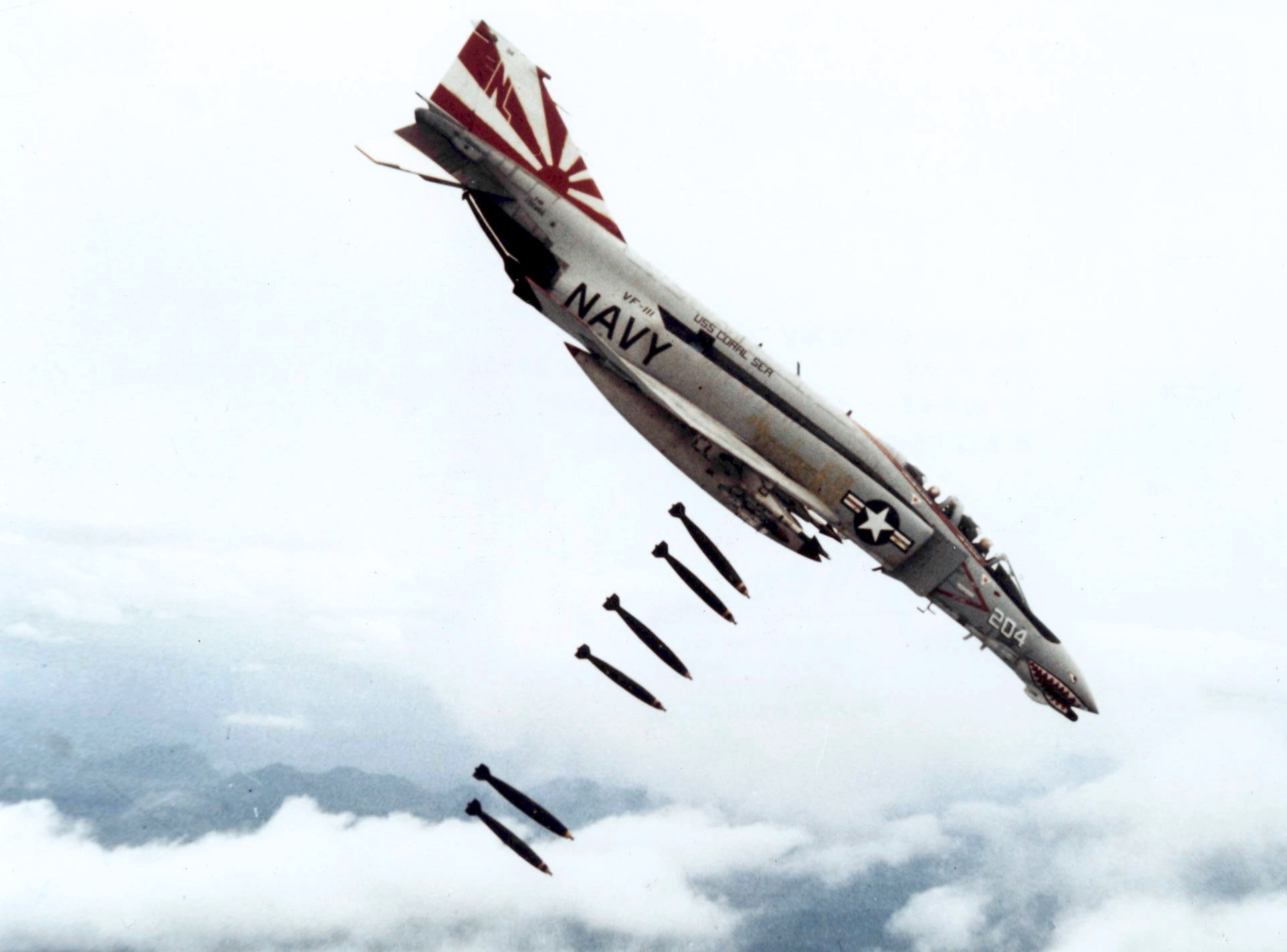 A U.S. Navy McDonnell F-4B Phantom II of Fighter Squadron VF-111 Sundowners drops 227 kg Mk 82 bombs over Vietnam during 1971. VF-111 was assigned to Attack Carrier Air Wing 15 (CVW-15) aboard the aircraft carrier USS Coral Sea (CVA-43) for a deployment to Vietnam from 12 November 1971 to 17 July 1972.